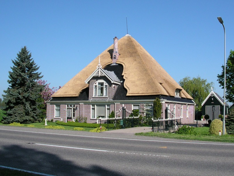 A farm along side a provincial road in De Hout.